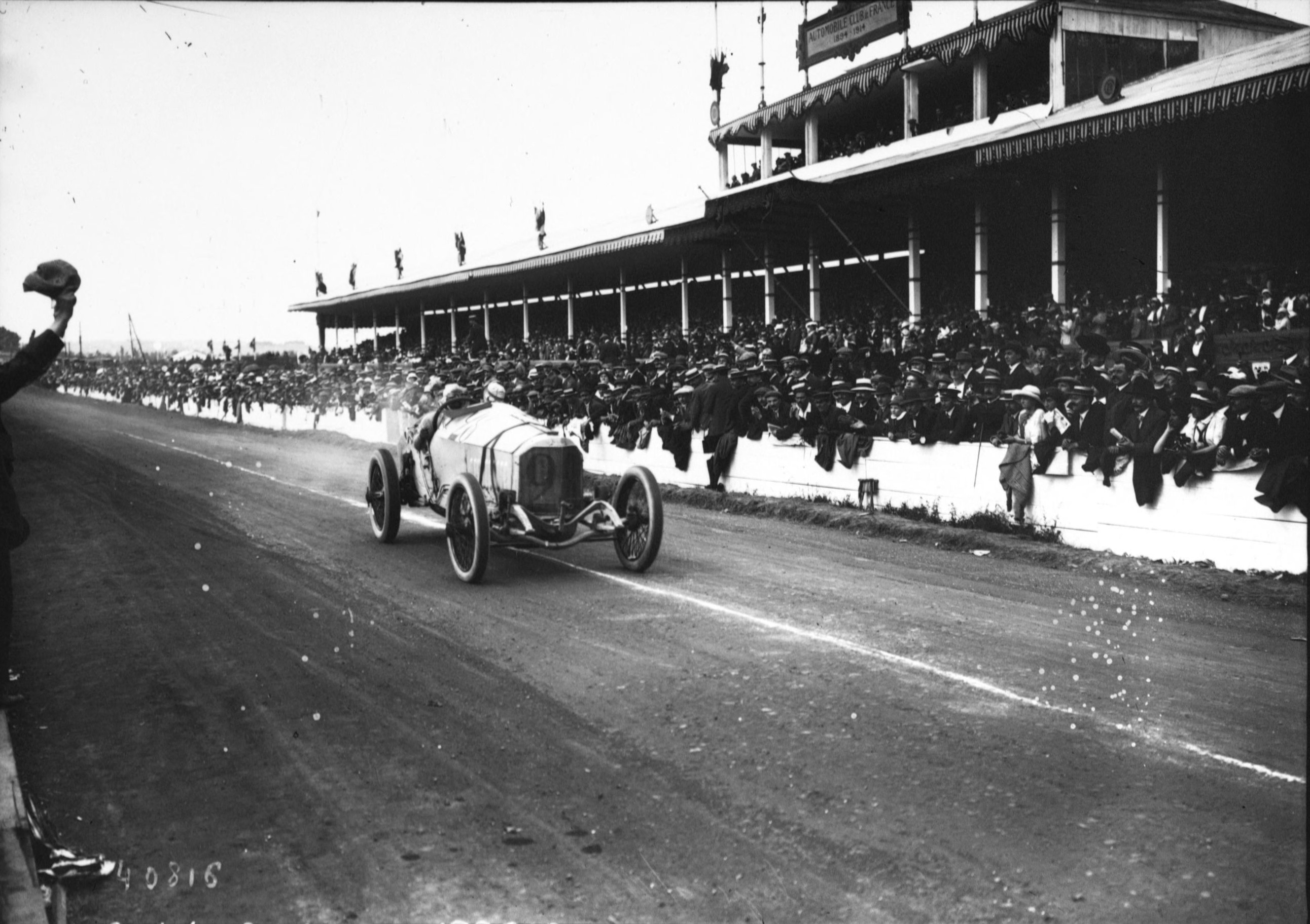 Christian Lautenschlager at the 1914 French Grand Prix driving a Mercedes